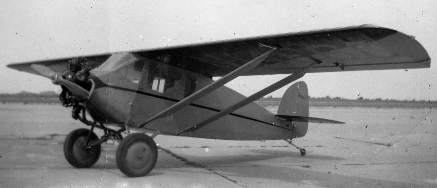 Images from an Album (AL-61A) which belonged to Mr. Lowry and was donated to the Leisure World Aerospace Club. Repository: San Diego Air and Space Museum Archive